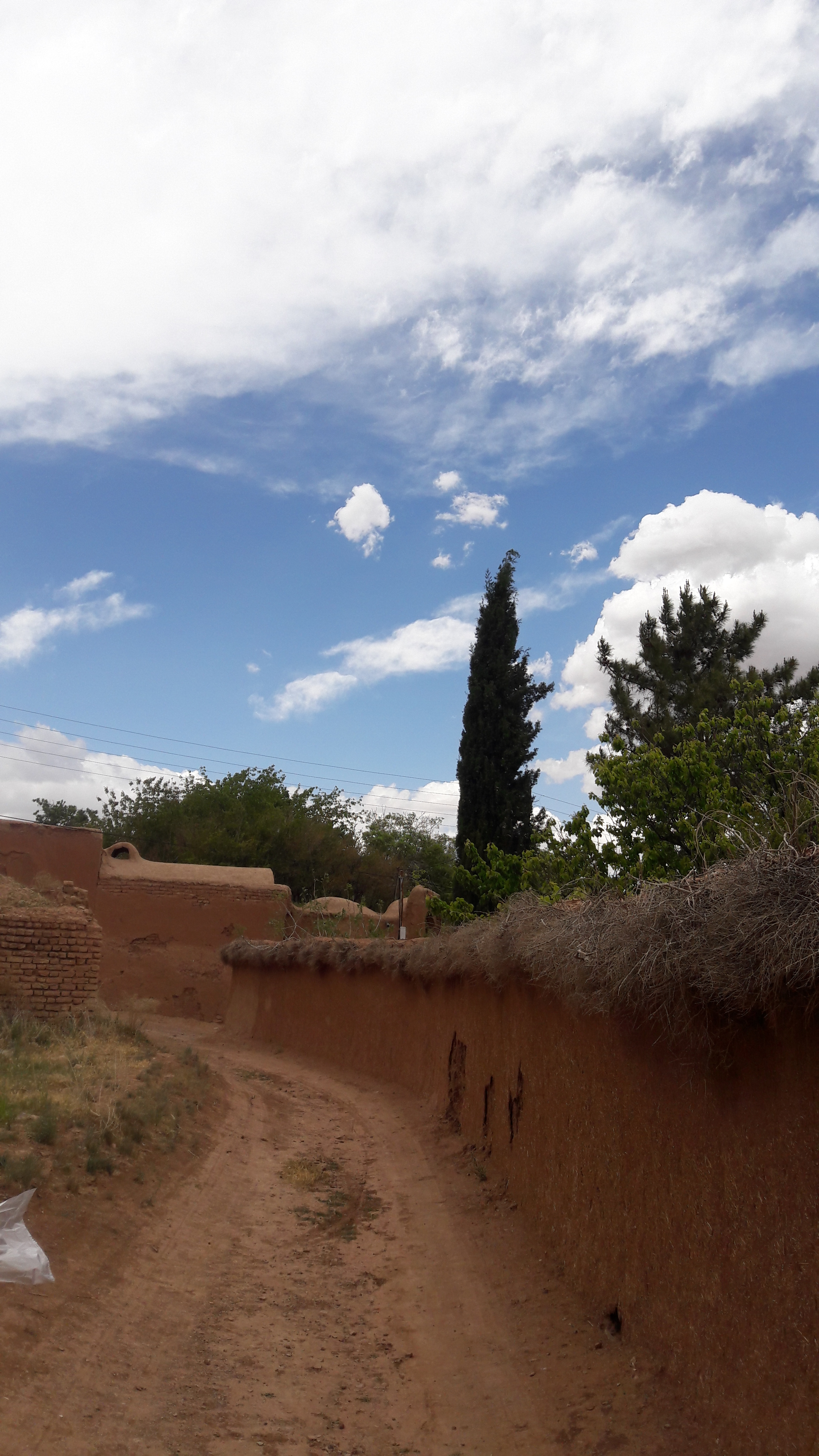 Tezerj, Kerman, Iran